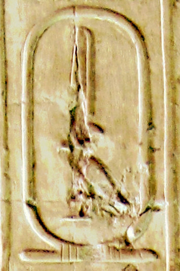 Cartouche 4, Abydos King List. Temple of Seti I, Abydos, Egypt.